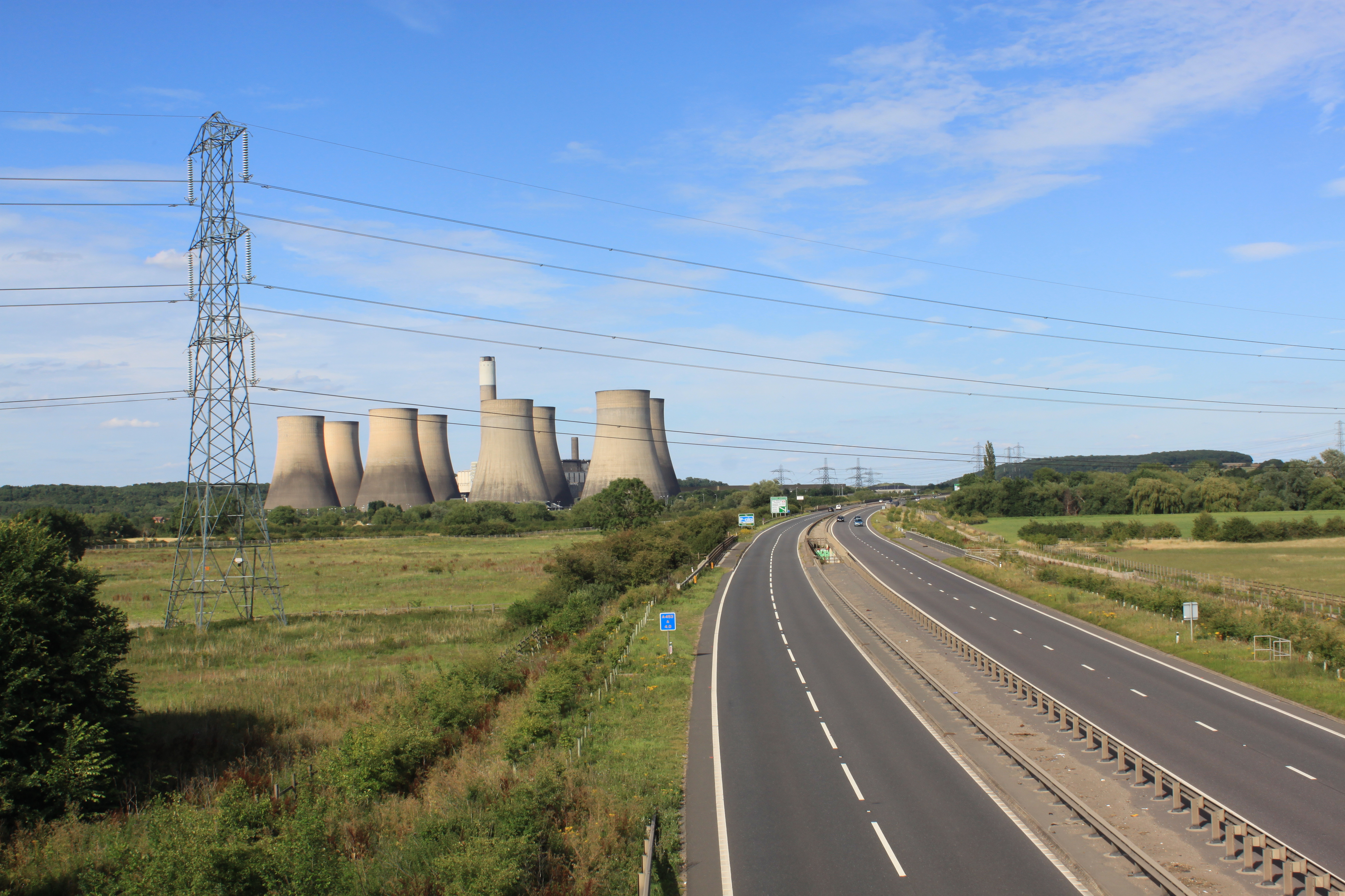 The A453 dual carriageway, between junction 24 of the M1 and Nottingham, as it passes Ratcliffe-on-Soar Power Station. This stretch of the road has been named "Remembrance Way" in remembrance of the 453 total of British military losses in Afghanistan. Picture taken from the Long Lane road bridge outside of Kegworth, looking northeast, towards the direction of Nottingham.